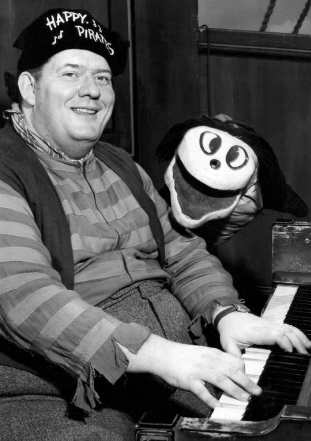 Photo of Dick "Two Ton" Baker. Baker was an entertainer in the Chicago area for over 40 years, working in radio, early television and as a musician, playing the piano and vocals. Baker's recordings were primarily novelty songs. His career spanned from the 1930s until his death in 1975. During his time on early television, Baker hosted many programs for children. He is shown here as the host of the program "The Happy Pirates" with the puppet, Bubbles the porpoise, who appeared on the program with him. This show ran on WBKB-TV from 1952 to 1956. Baker enjoyed entertaining live audiences and played many engagements in area night clubs and restaurants over the years.